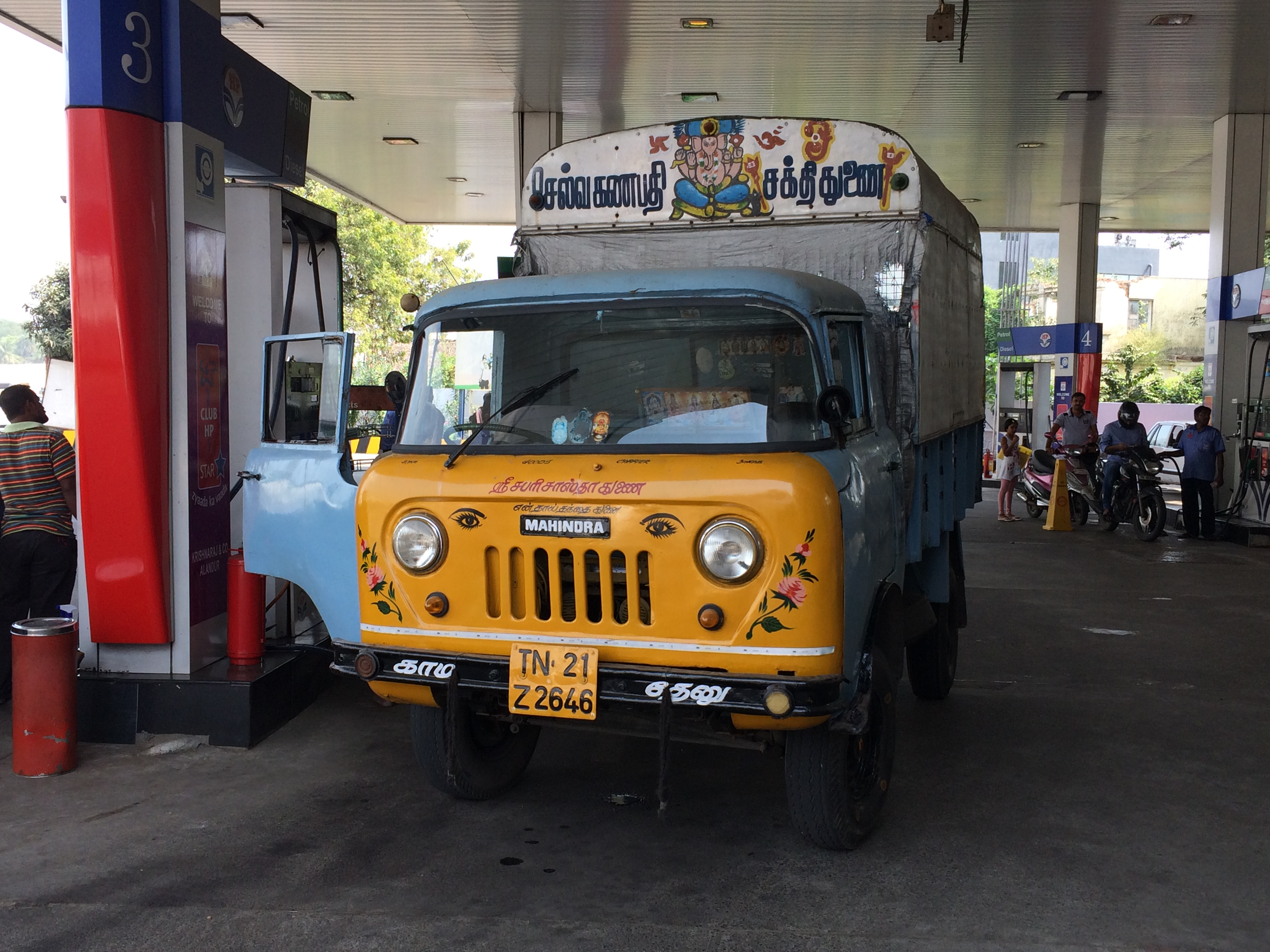 Mahindra FJ Pickup Truck